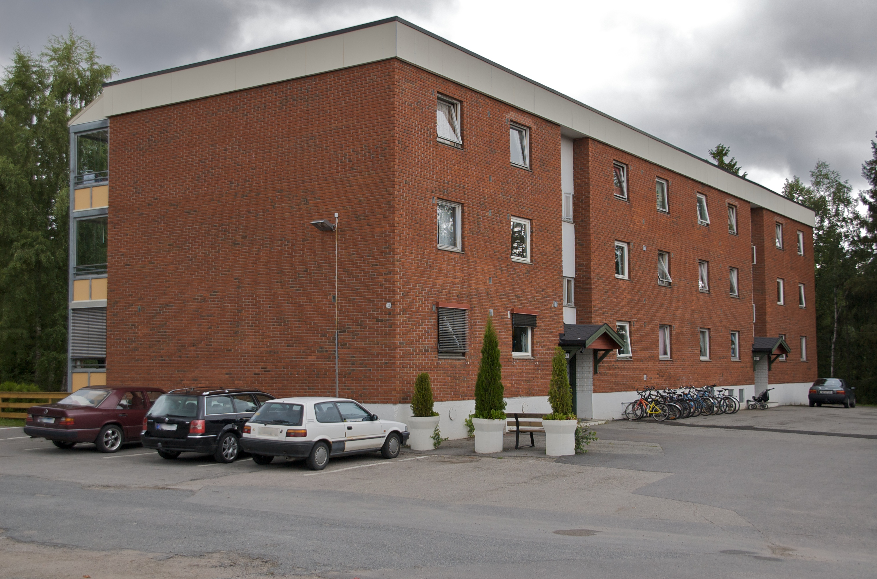 Typical 1970s building in Skien, Norway. From Stigeråsen (Gulset).